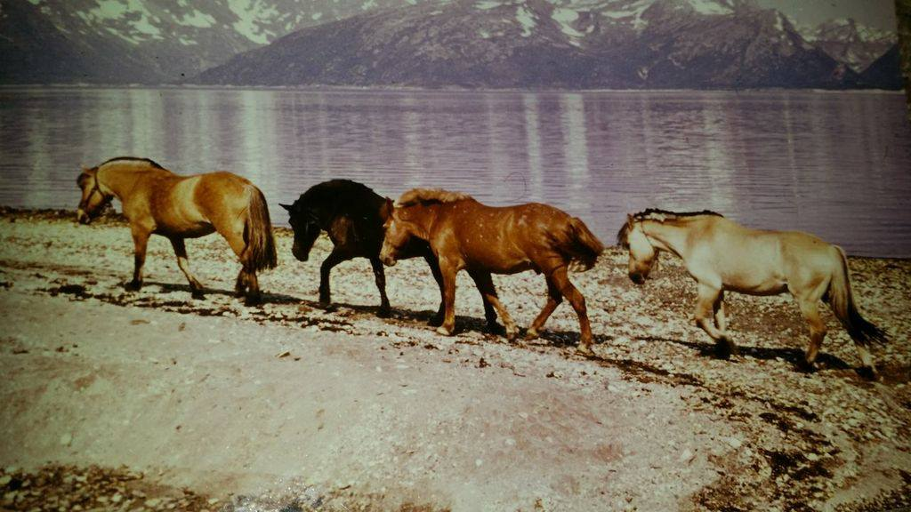 The last work horses in Snarby, Tromsø; first and last horse are Norwegian fjords, the two middle ones Nordlandshest/Lyngshest